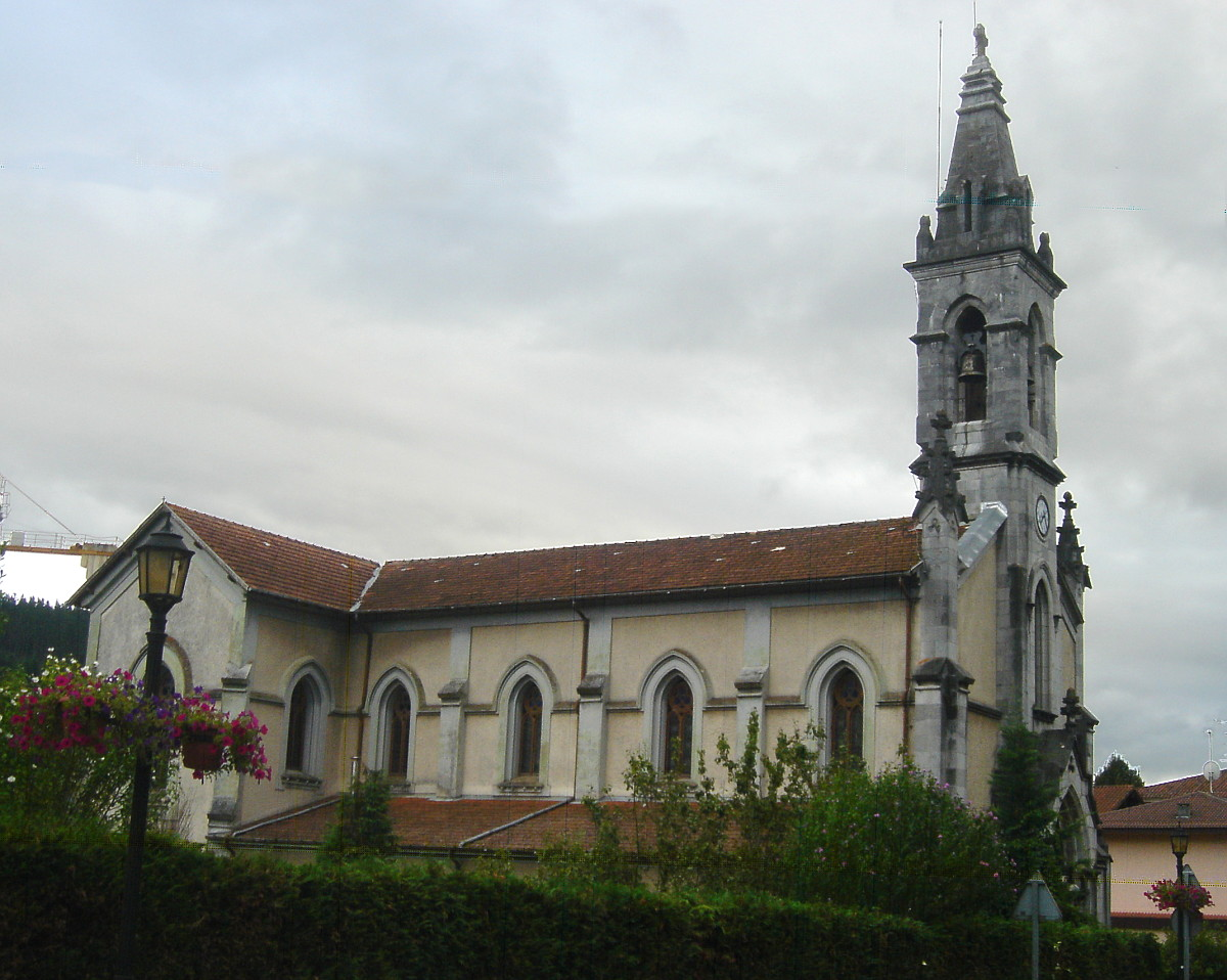 Church of Arteaga (Arratia, Biscay, Basque Country, Spain)